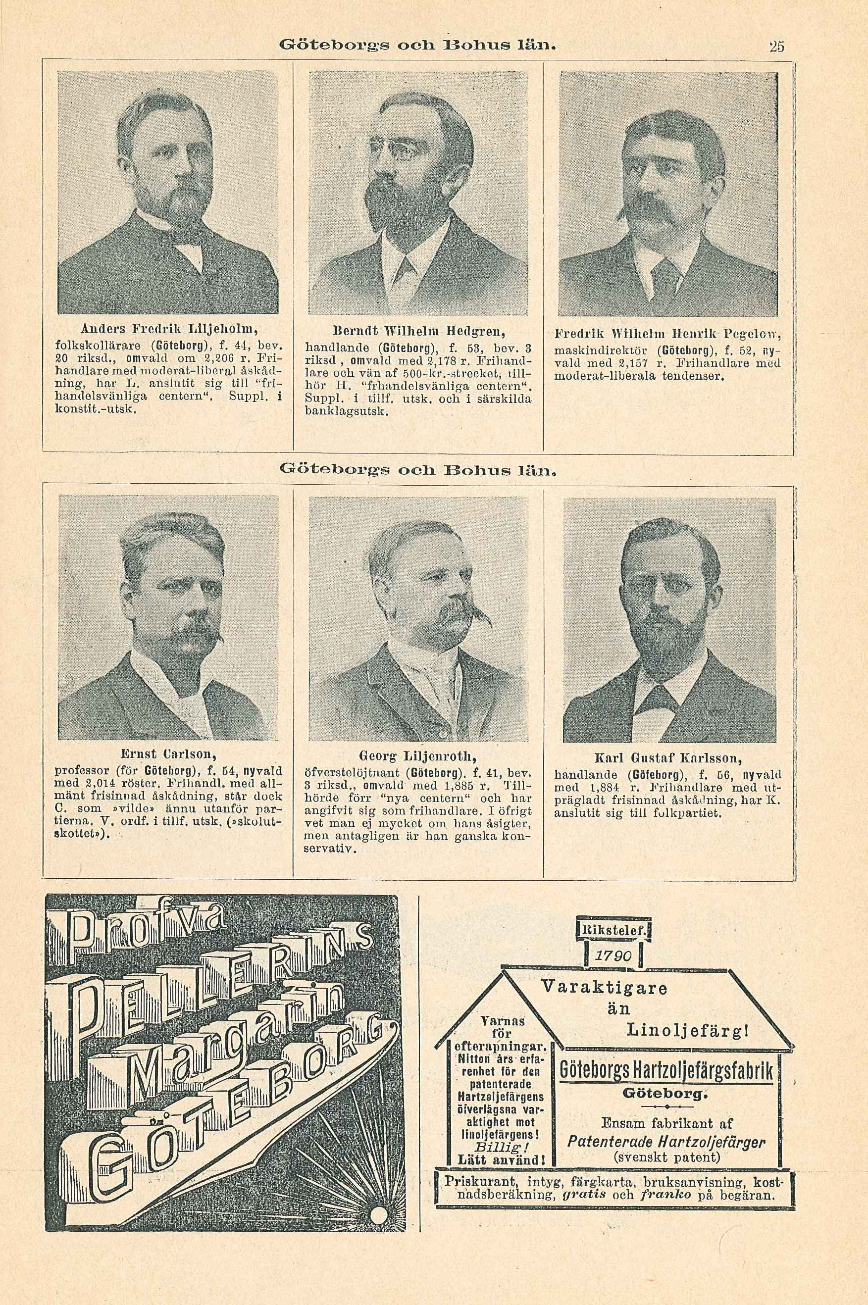 Page 25 of an album featuring portraits of all the members of the second chamber of the Swedish parliament (Sveriges riksdag) elected in 1897. This page featuring parts of the members representing the county of Göteborg och Bohus.